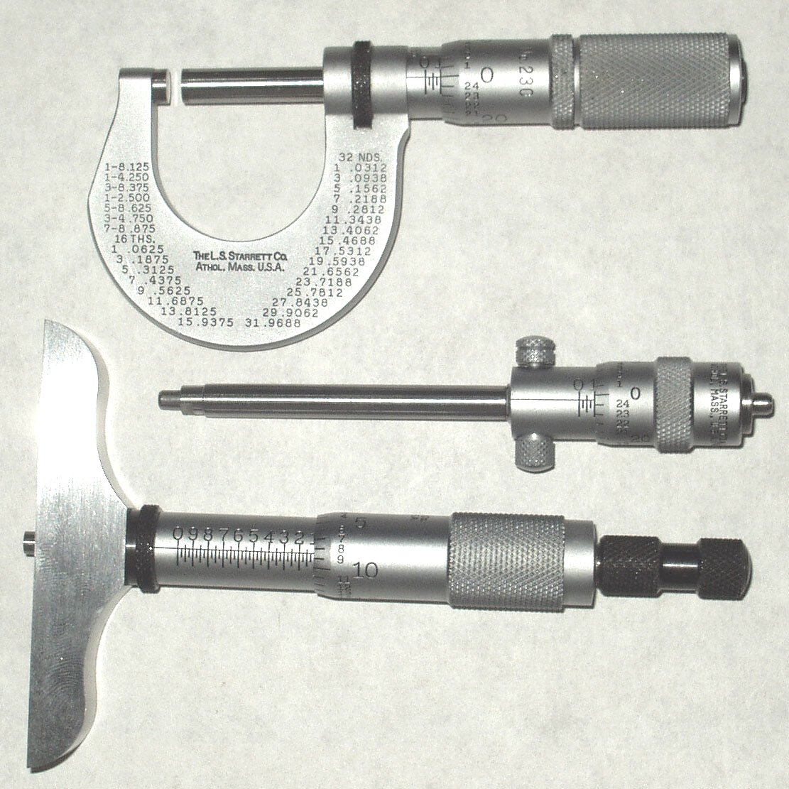 Outside micrometer, inside micrometer, and depth micrometer.